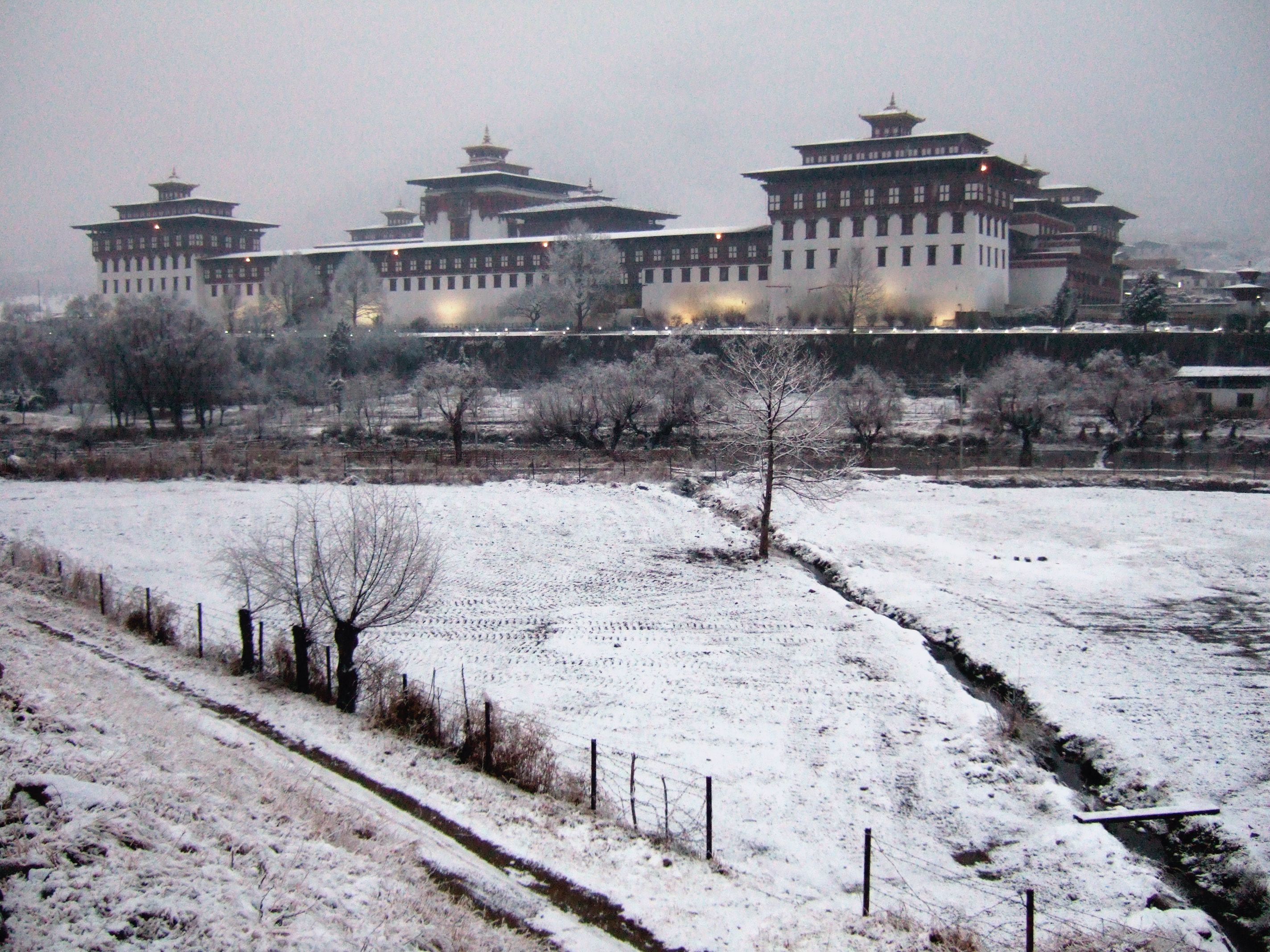 Tashichödzong, Thimphu, Bhutan. Tashichodzong in winter.